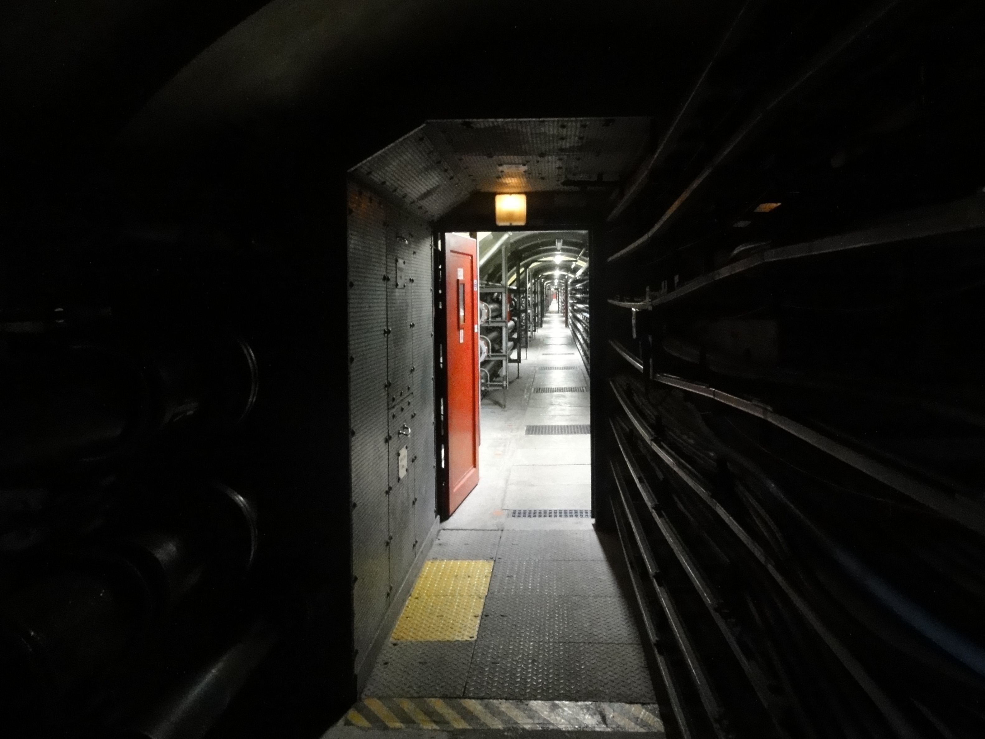 A tunnel that is part of the Thames Barrier, between two of the barrier piers.